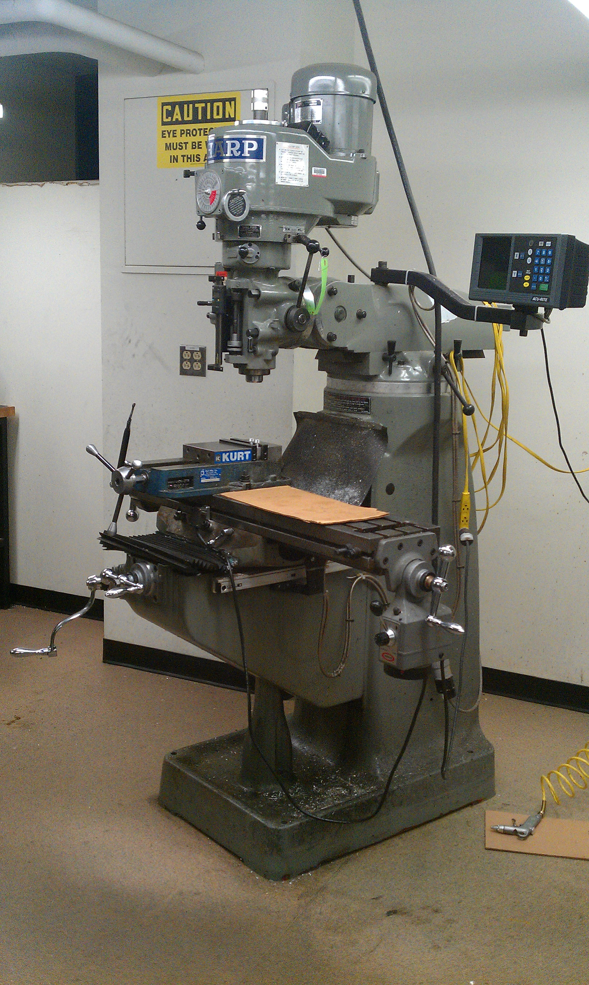 A full view of a Sharp Machinery 3 axis vertical mill. An example of a Bridgeport variant.